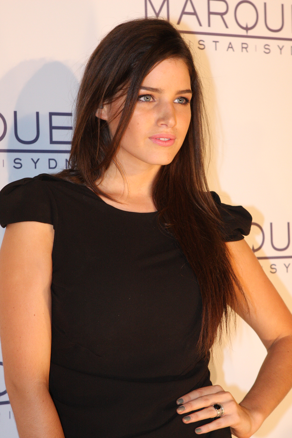 Opening of Marquee The Star, Sydney, Australia The Star's new nightclub Marquee in "Sin City" Sydney, Australia, tonight held their grand opening last night and the ultimate party girl herself - Paris Hilton, along with boyfriend DJ Afrojack, and a bush tucker bag of friends and associates including Ashlee Simpson, Nick Lachey, Kellan Lutz, Abbie Cornish and LMFAO's Redfoo helped get the party started on the red (purple) carpet. The Australian contingent of celebs who attended included Laura Dundovic, Alex Dimitriades, Glenn and Sara McGrath, Alex Perry, Nikki Phillips, Didier Cohen, April Rose Pengilly, Tim Commandeur, Laura Cstortan and Chris Joannou. The official VIP launch party featured DJ sets from The Black Eye Peas, will.i.am and Afrojack, with boat loads of celebs. The 20,000 square foot nightclub occupies the entire top tier of The Star’s new Pirrama Road harbour side entrance.